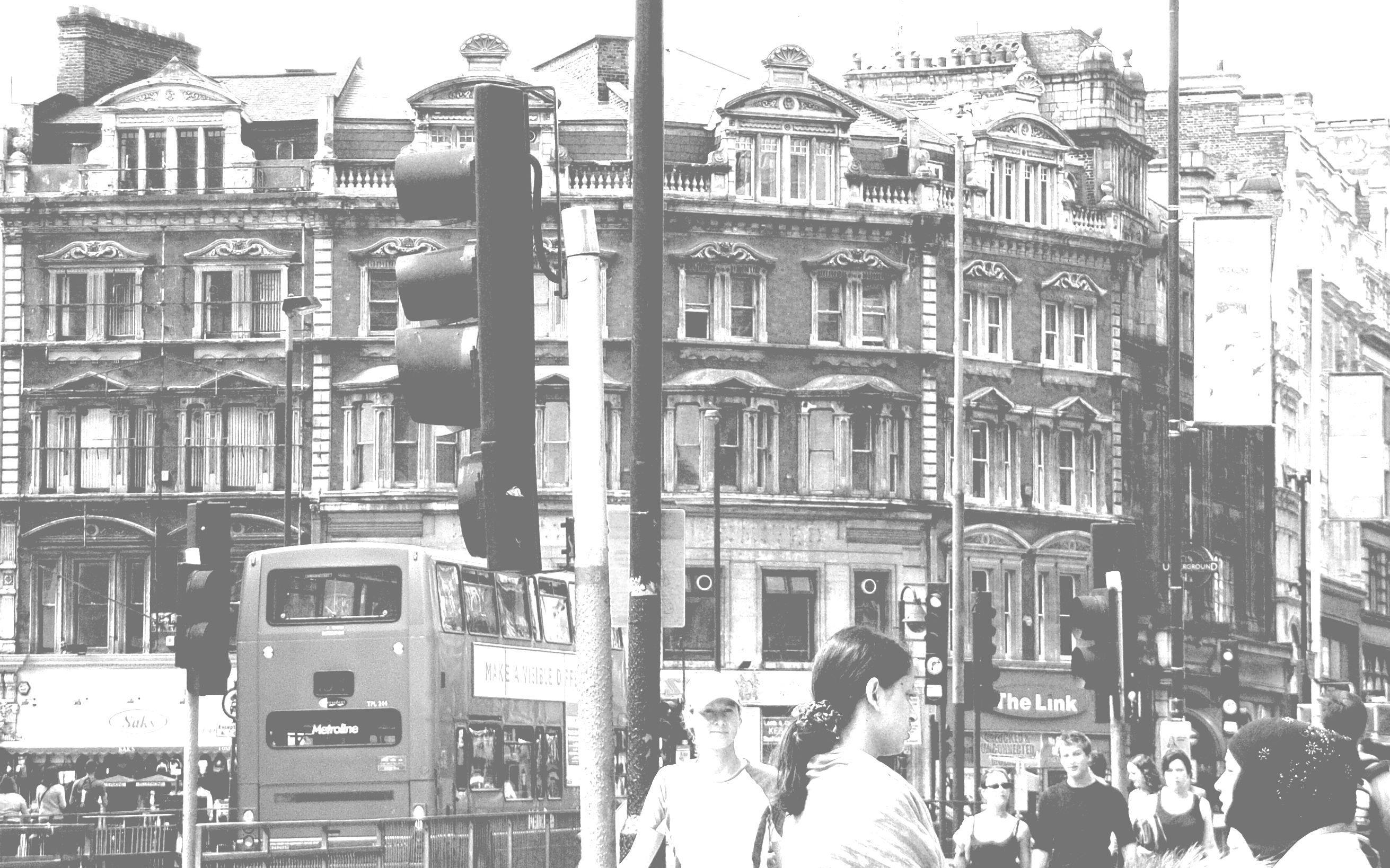 Totenham court road